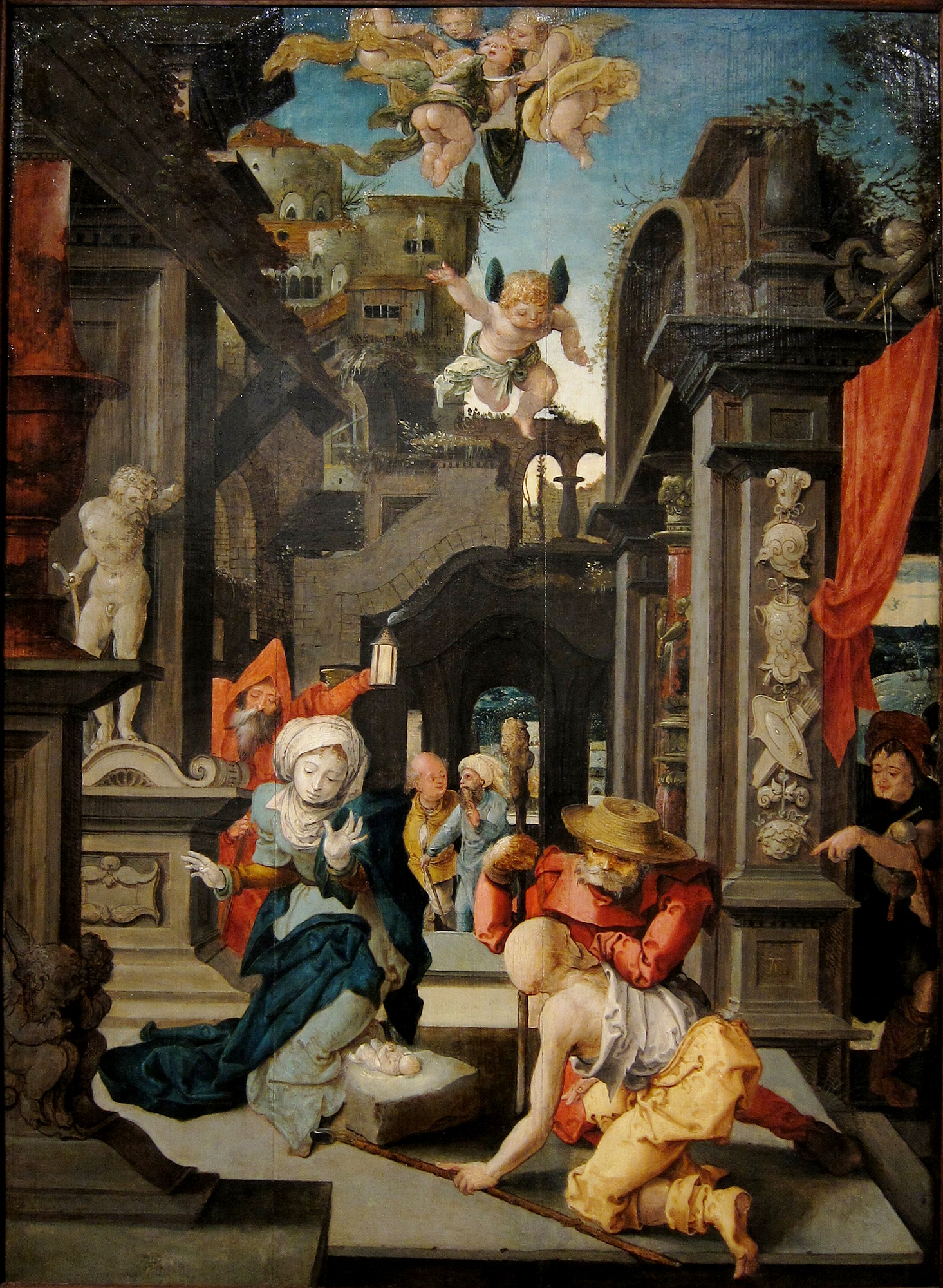 Formerly attributed to Dirk Villert